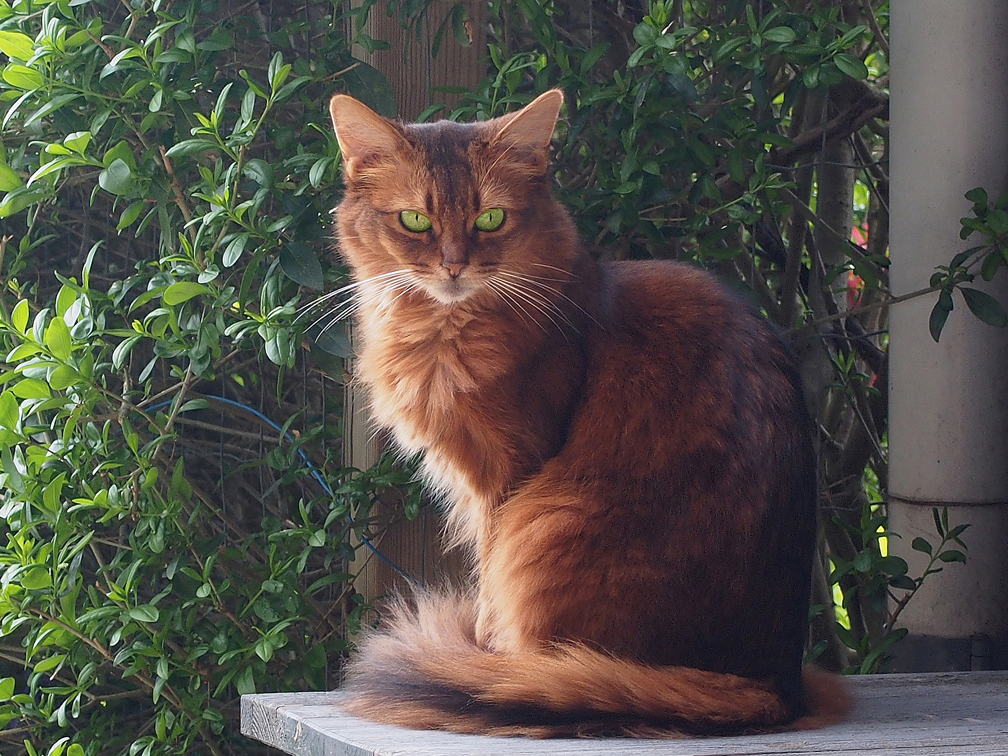 Dushara Cathal Caithlin. Somali cat, female, neuter, born 2007. Breeder: Teresa Guldager, Dushara Cattery, Denmark. Owner: Finn Frode Hansen. Titles: Supreme Premier (FIFe), Quadruple Grand Champion Alter (TICA), Grand Champion (CFA).